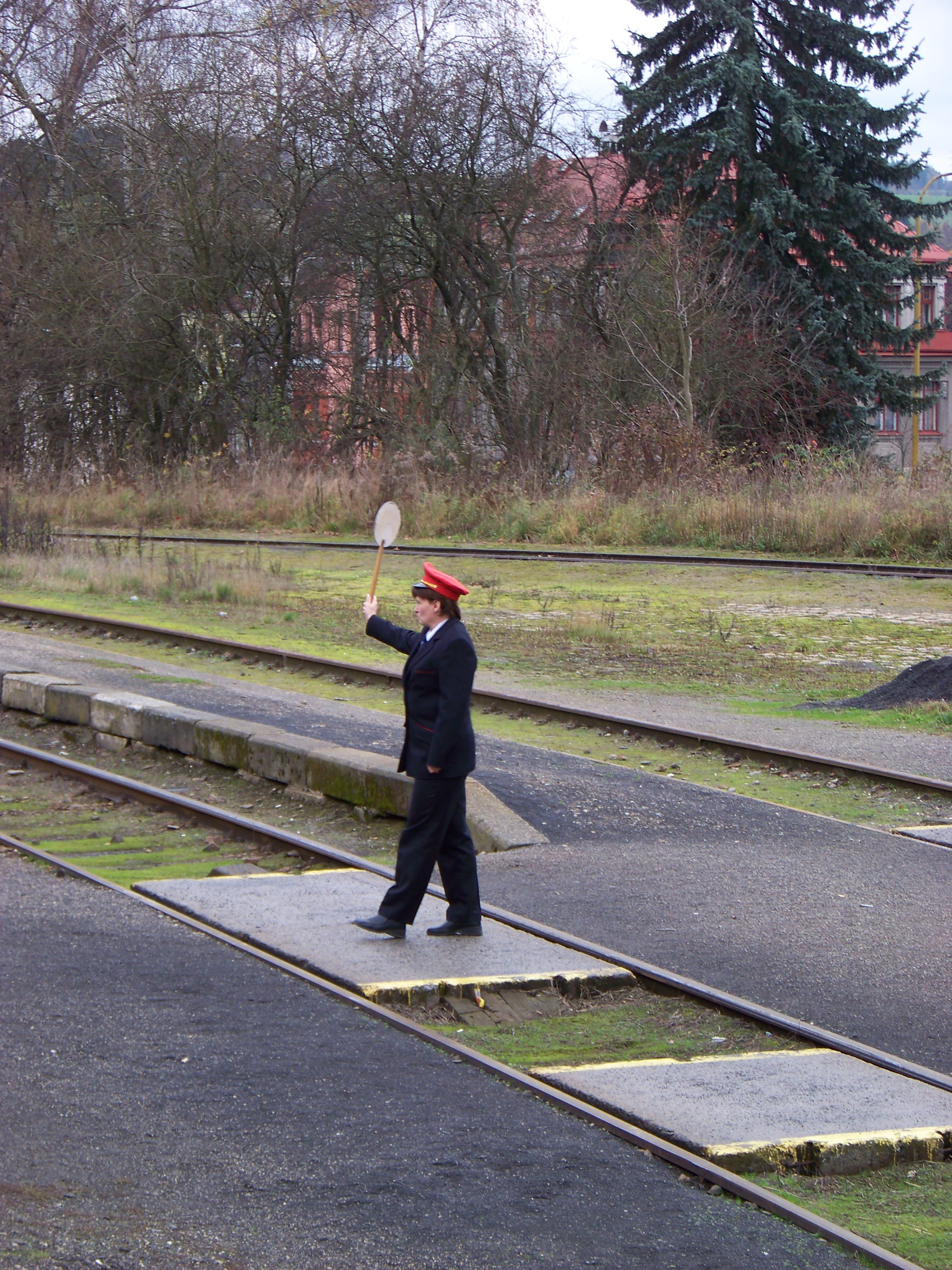 Rychnov u Jablonce nad Nisou, Jablonec nad Nisou District, Liberec Region, Czech Republic. Train station Rychnov u Jablonce nad Nisou. - Google Maps - Google Earth